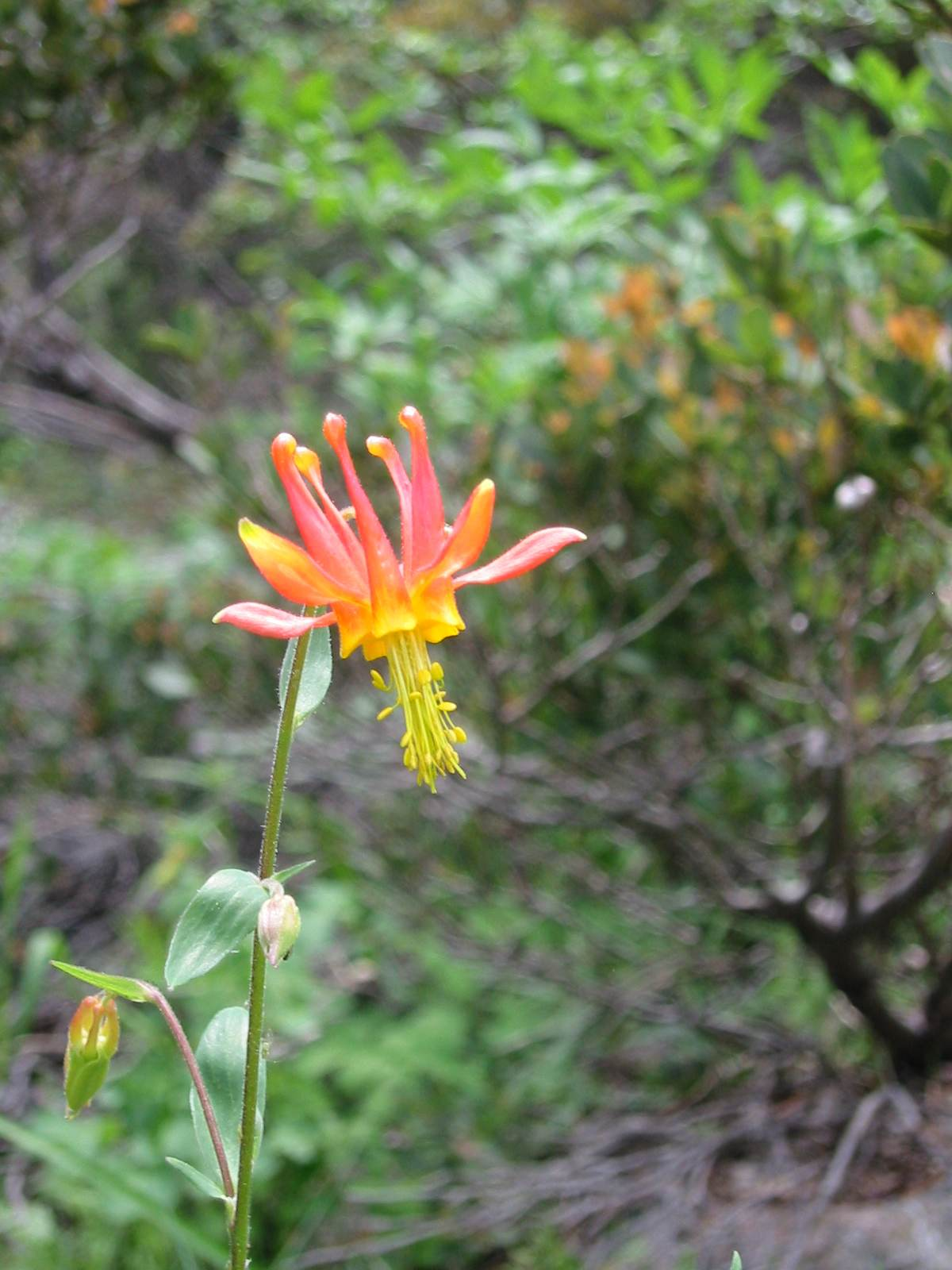 Aquilegia formosa subsp. truncata — Red Columbine. At Castle Lake, eastern Klamath Mountains, California.